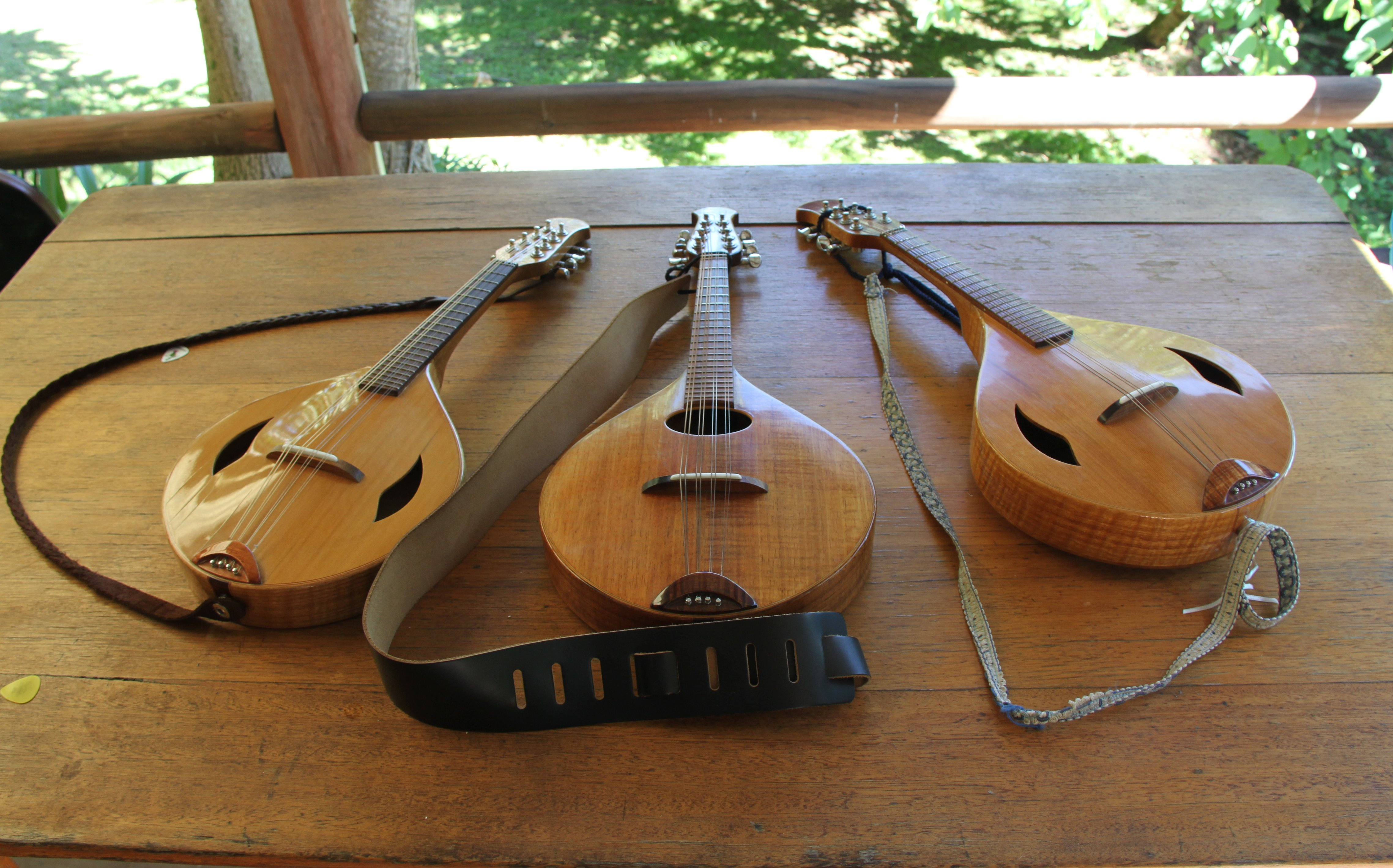 Three mandolins by Australian luthier Daniel Brauchli, photographed in 2014 (Tony Rees photograph)